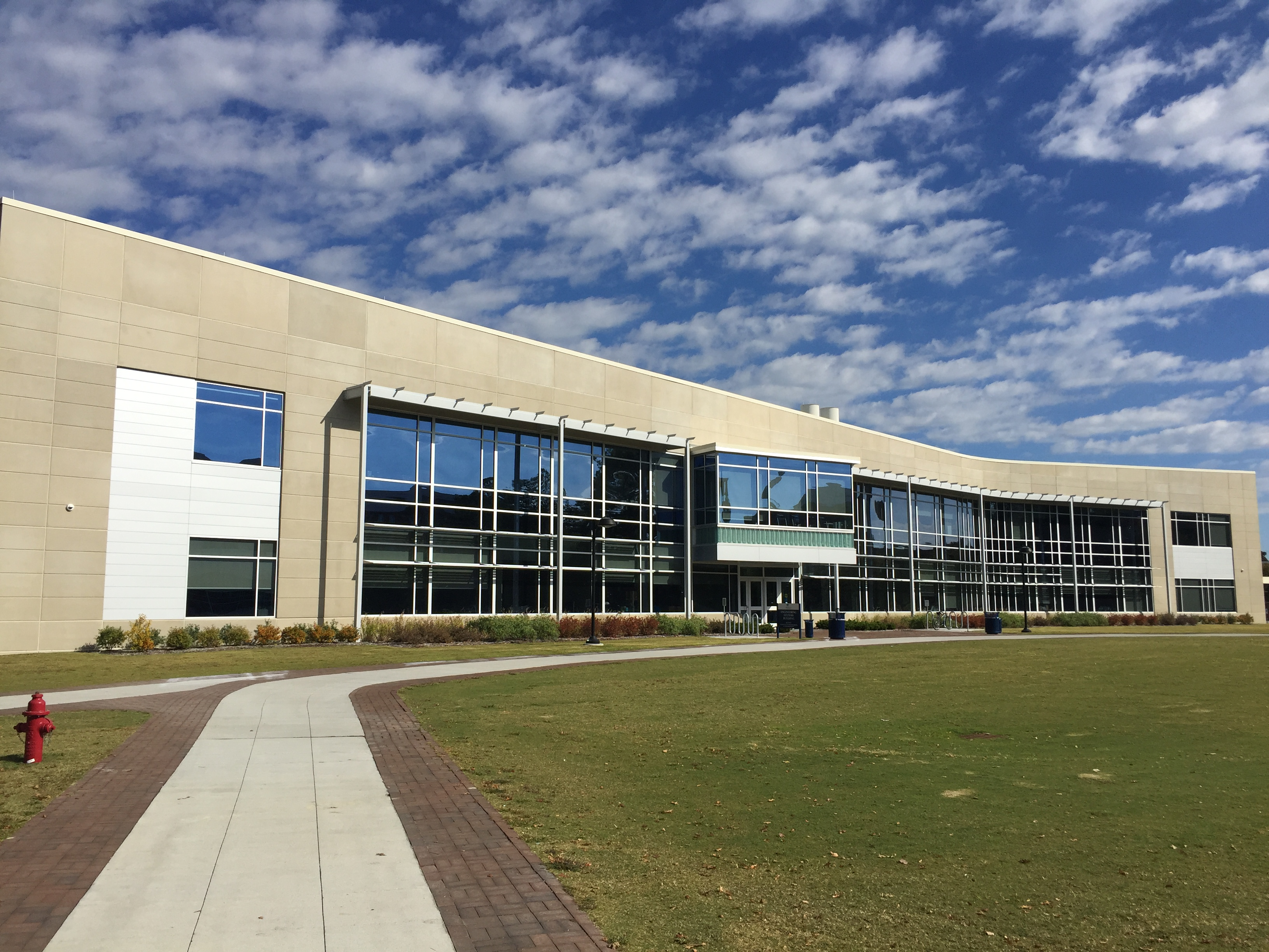 Engineering Systems Building